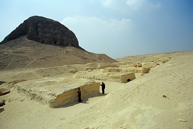 North side of the pyramid of Sesostris II, el-Lahun, el-Fayyum, Egypt